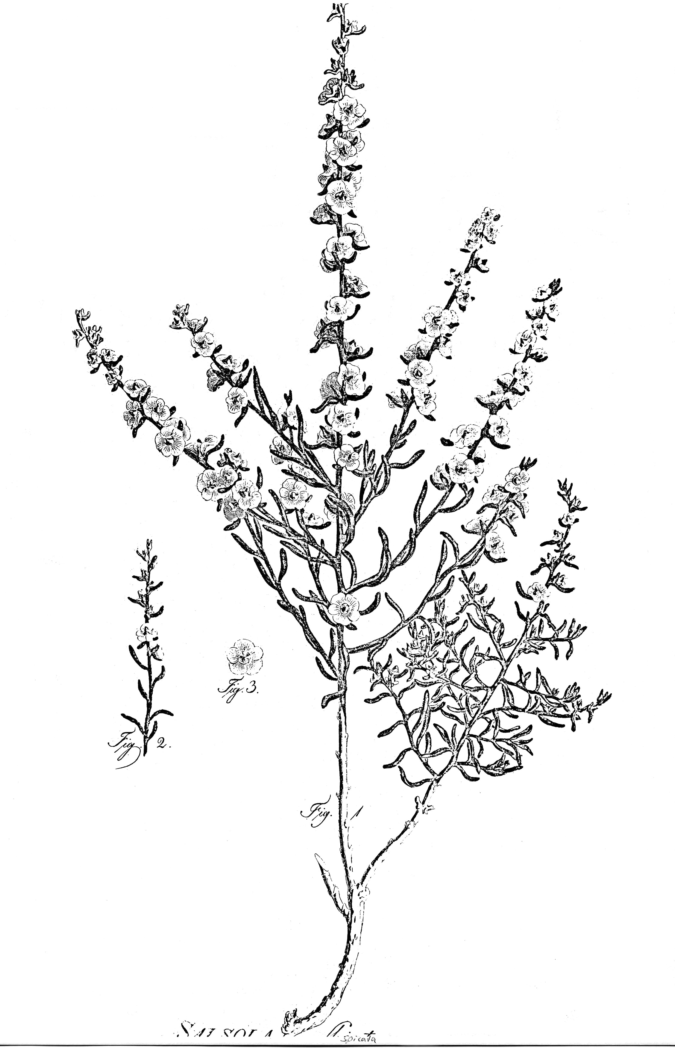 Halothamnus glaucus (M.Bieb.) Botsch., as Salsola spicata Pall. (nom. illeg.), from Pallas, P.S. 1803. Illustrationes Plantarum Imperfecte Vel Nondum Cognitarum: 27, tab. 19.